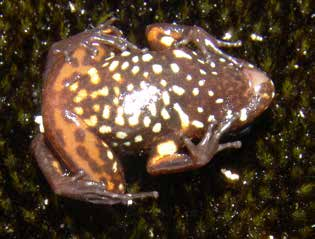 Anomaloglossus rufulus (ventral view) from the Churi-tepui, Chimantá Massif, Venezuela